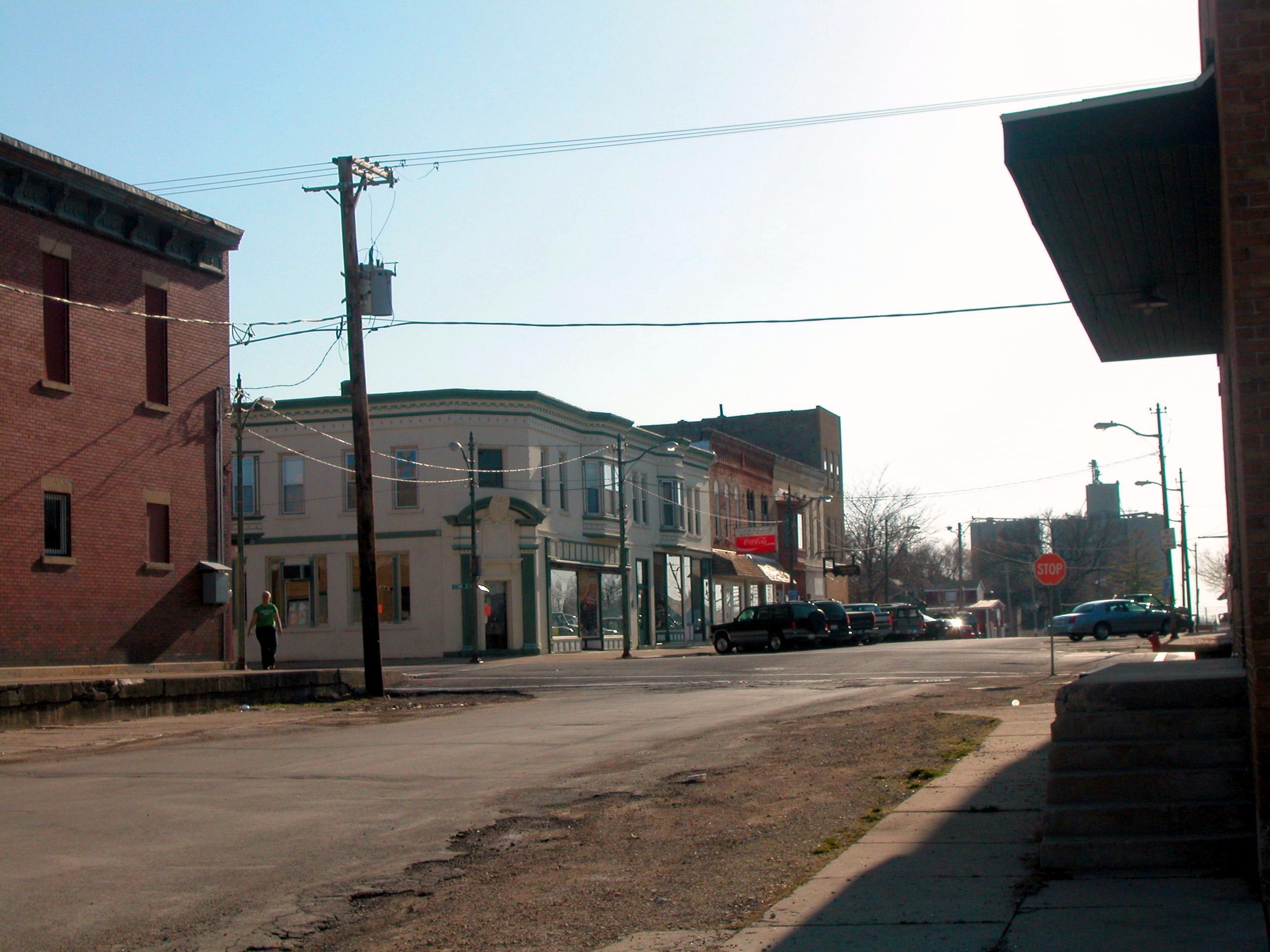 Earlville, Illinois.